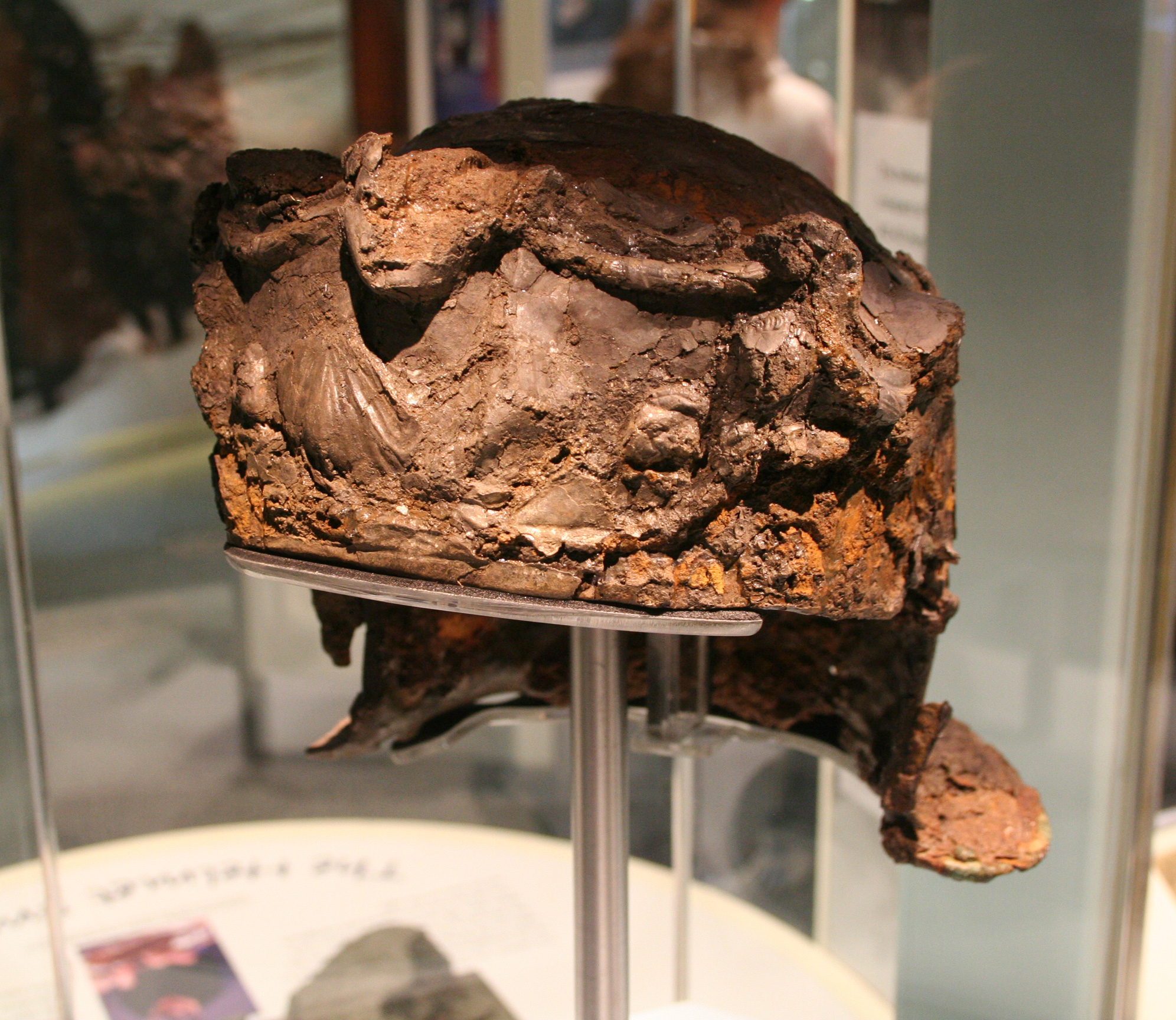 The Hallaton Helmet, front right view